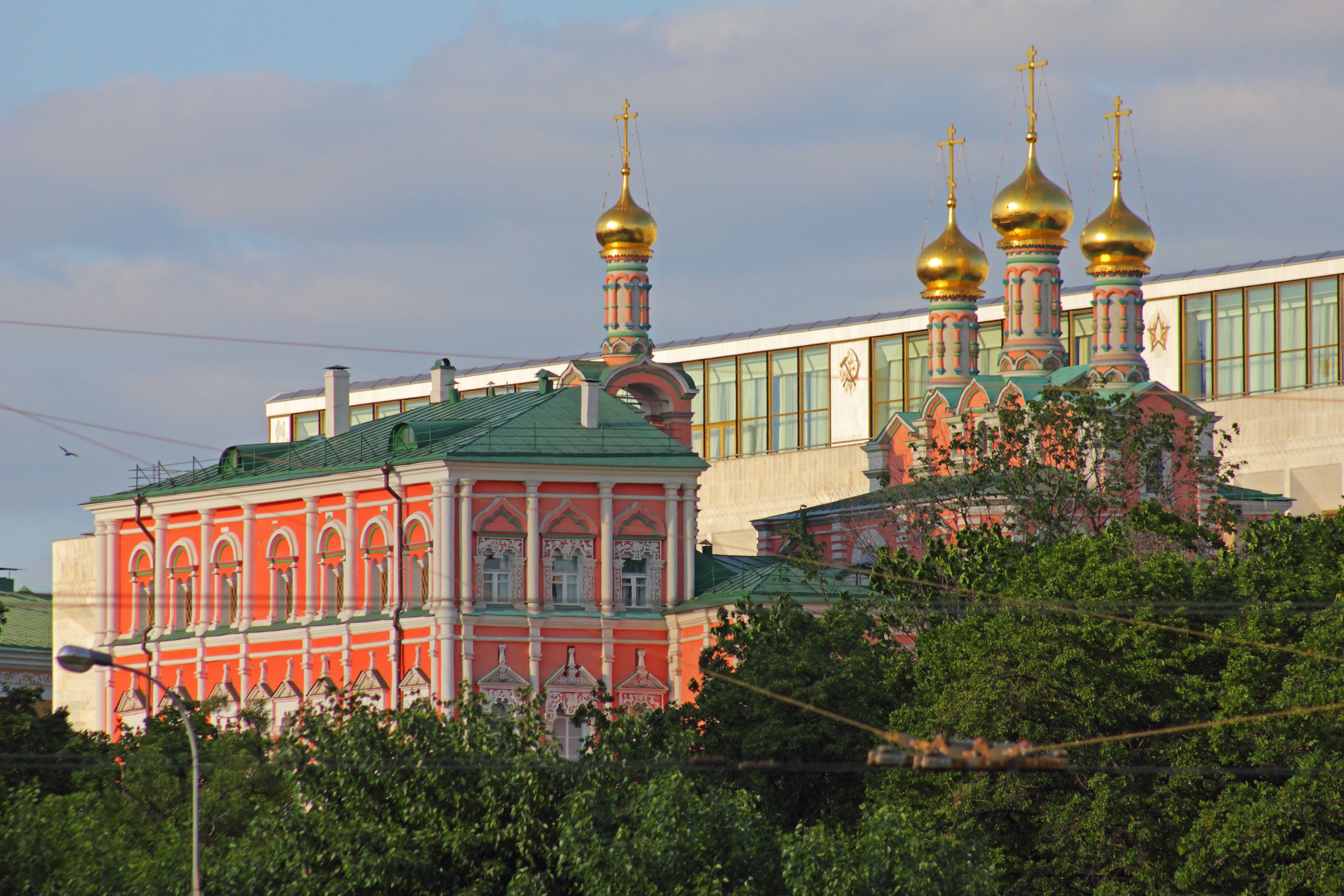 Moscow, Russia. Poteshny (Amusement) Palace of the Moscow Kremlin.